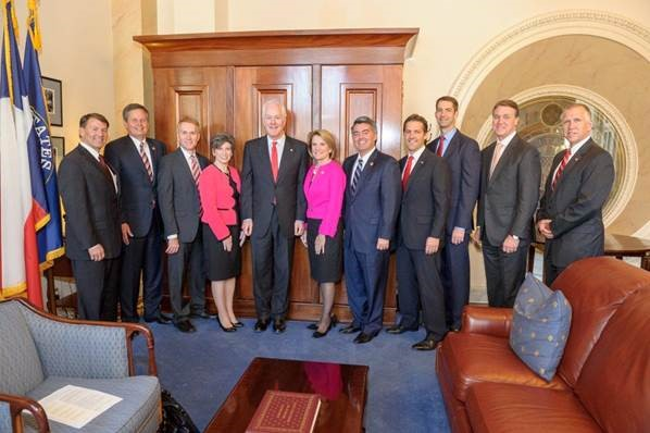 This is picture of Senator John Cornyn and other Senators during the beginning of U.S. Congress in 2014.